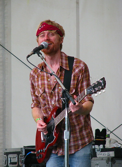 Tommy Siegel of Jukebox the Ghost performing at the Appel Farm Arts and Music Festival in Elmer, NJ, June 2012. Photo by LHCollins.